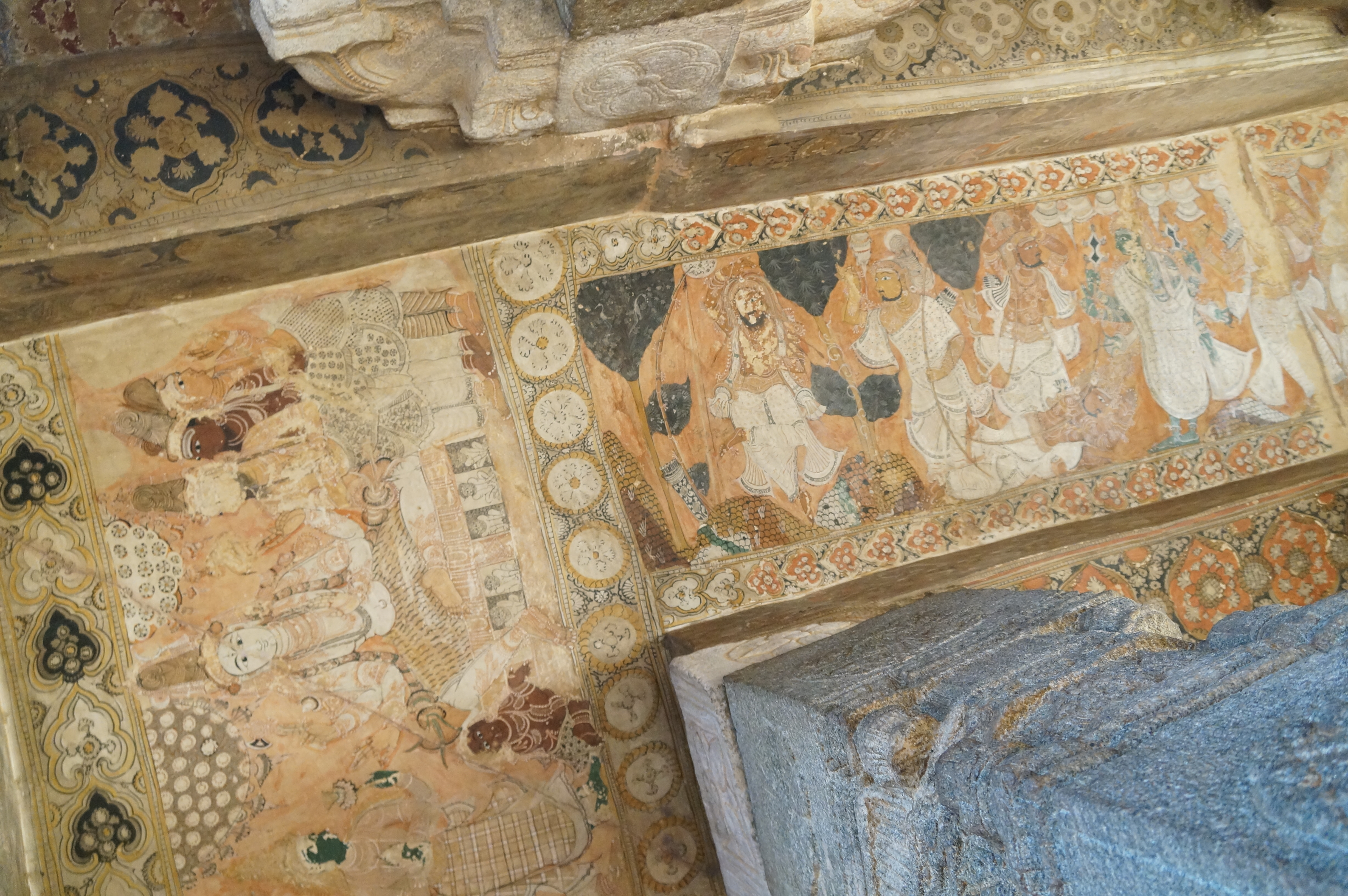 Ceiling painting, lepakshi